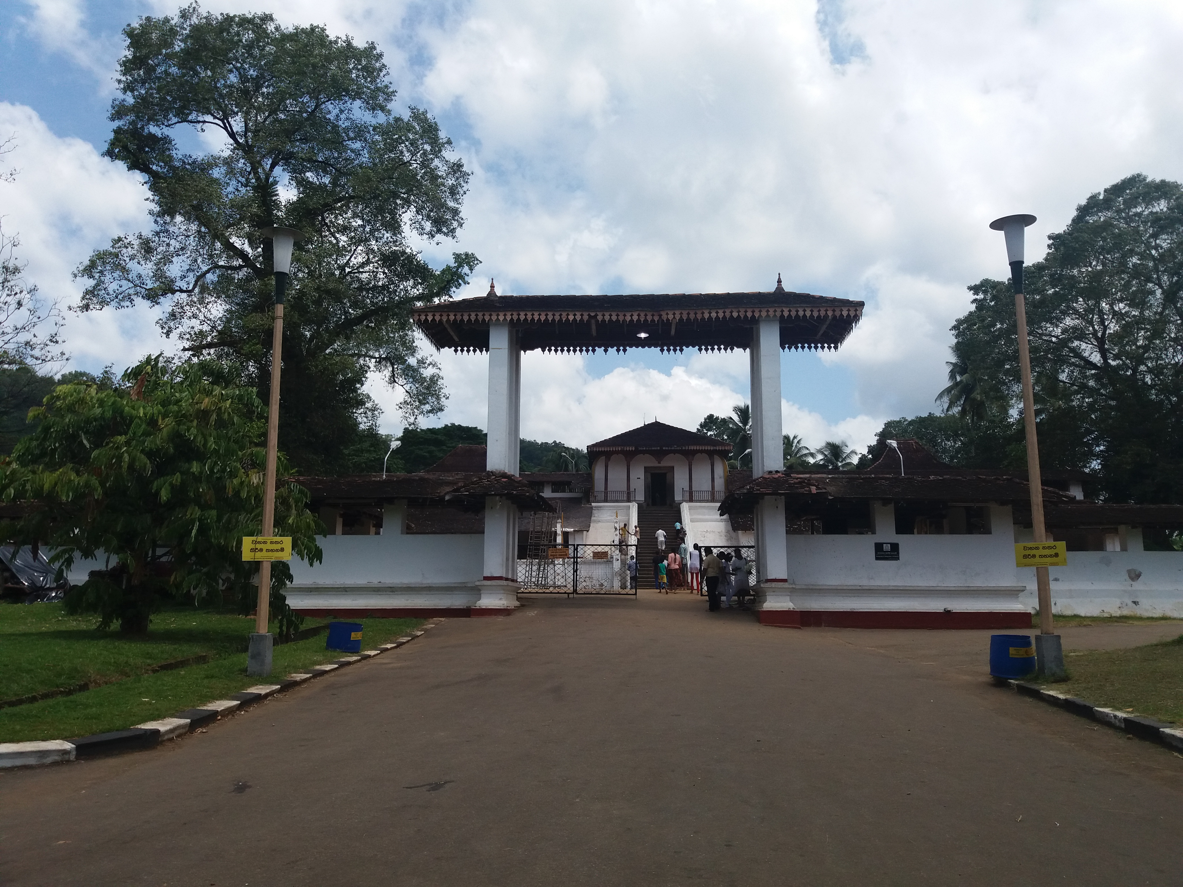 Entrance gate to Maha Saman Devalaya, Ratnapura, Sri Lanka